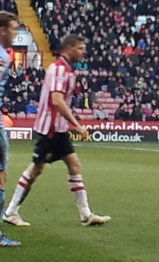 Chris Porter playing for Sheffield United in December 2013.